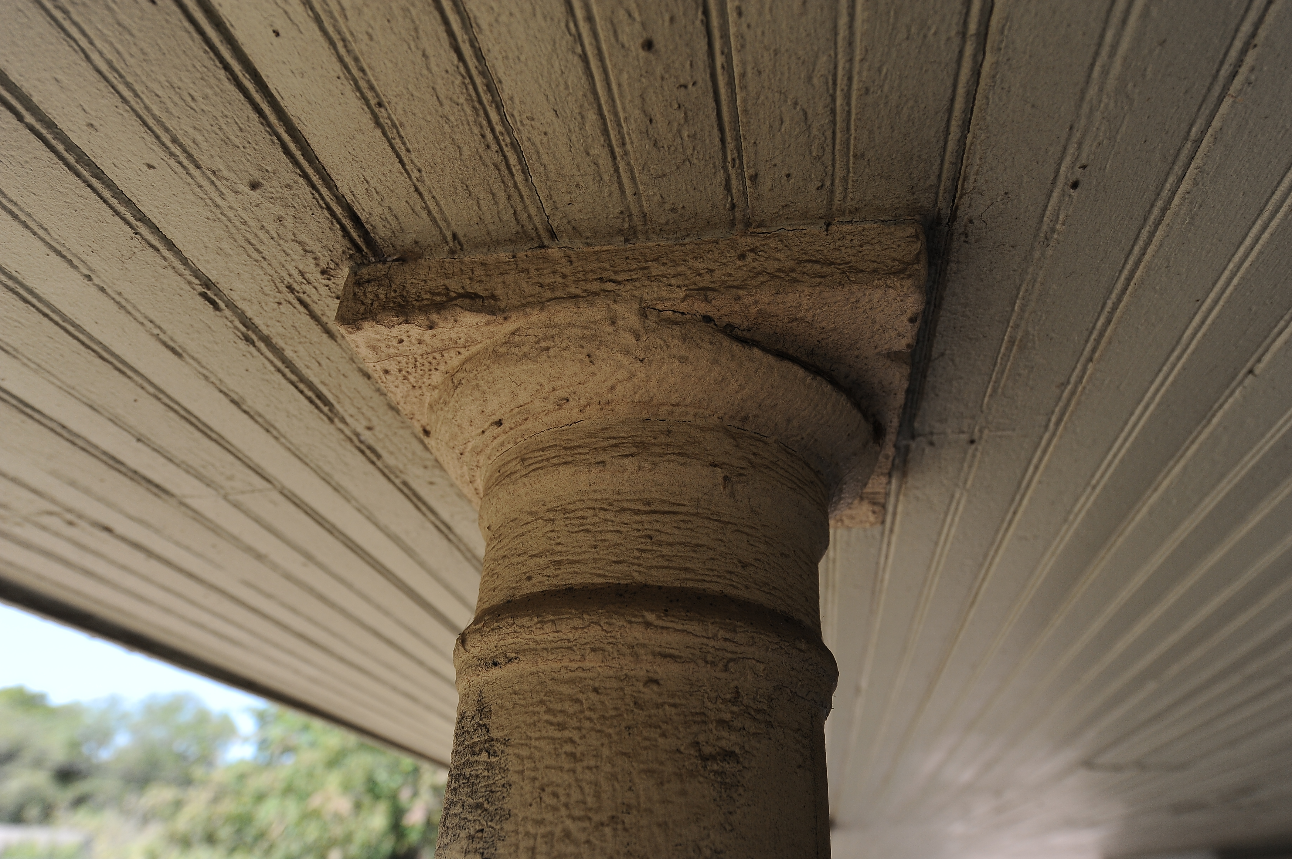 Doric column capital on porch of a house built by African American carpenter Richard J. Moore House in 1896. The Moore House is among the oldest of those remaining in the Tenth Street Historic District in the Oak Cliff section of Dallas, Texas.